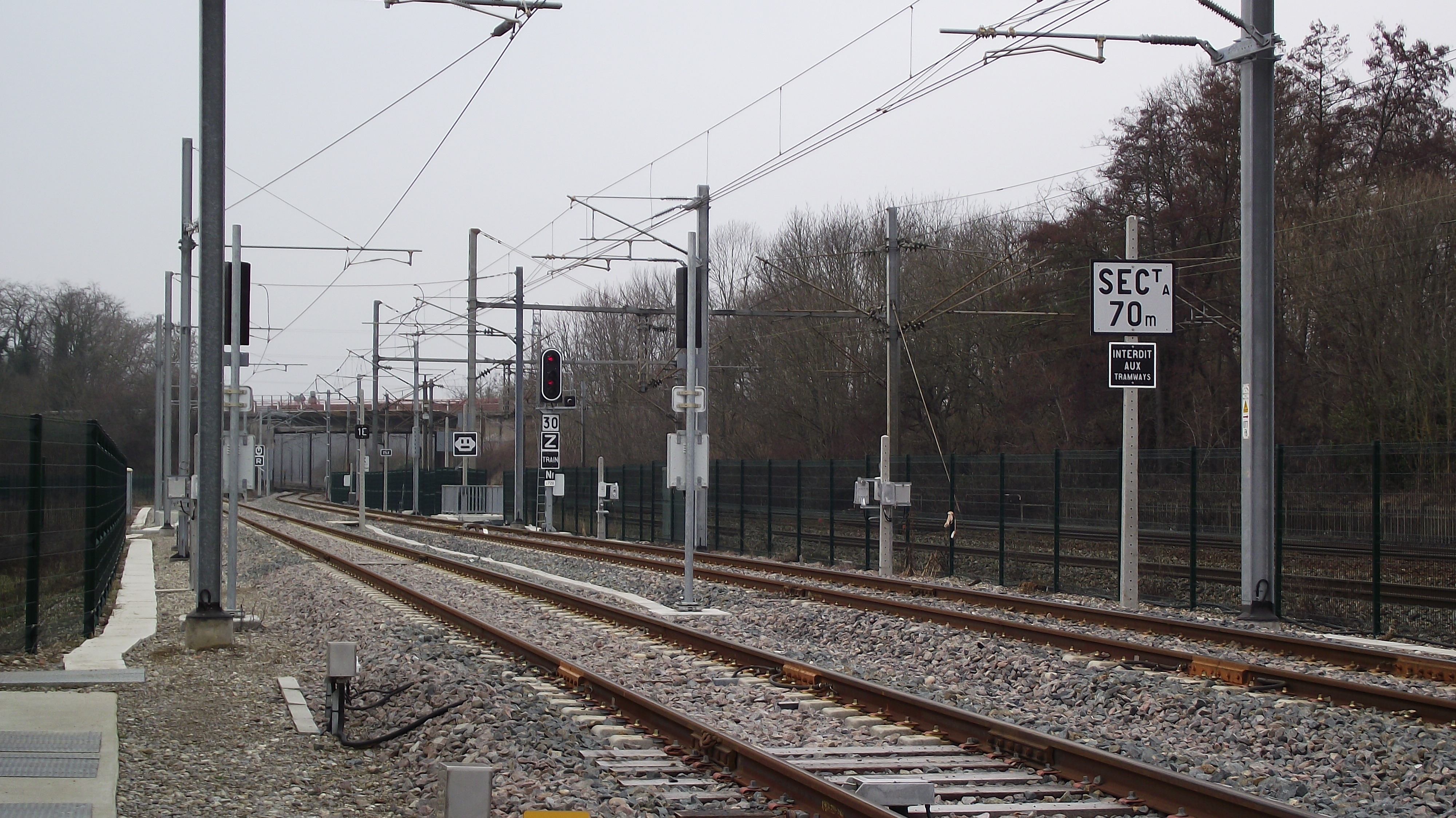 Change from tramway to railway near Lutterbach on the right track. From 750 V DC to 25 kV AC. The track on the left is used to reverse trams. The tracks on the far right are the mainline railway tracks.